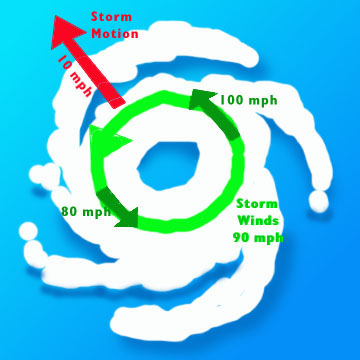 Diagram of a hurricane showing the right front quadrant.